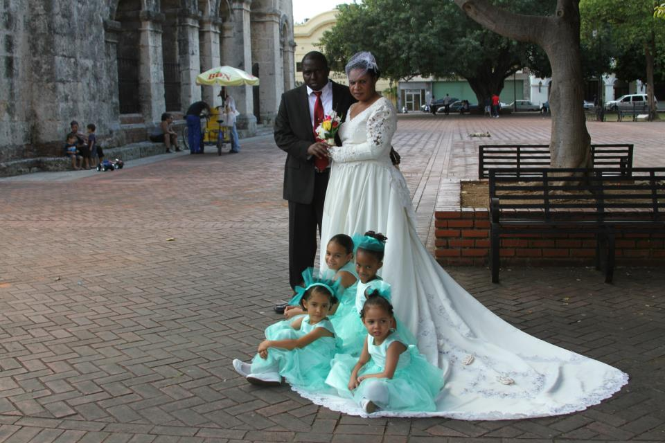 One of the best weddings in the Dominican Republic, by Africans from Kenya